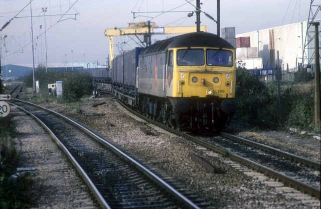 Ford parts train from Spain arrives at dagenham Dock station , near to Dagenham, Barking And Dagenham, Great Britain. A view much changed as seen from the top end of the platform at Dagenham Dock station looking east towards Barking. Before the continental railway and road improvements were made. The Ford parts blue train arrives from Spain having travelled via the Channel tunnel. This is how the approach to Dagenham Dock station looked some 15 years ago. The crane behind the train were formerly on the Hays site in Dagenham (Crane since sold!). At one point theses sidings were used for container trains carrying imported tea. Containers were taken from the train and unloaded on the site prior to going for blending elsewhere.